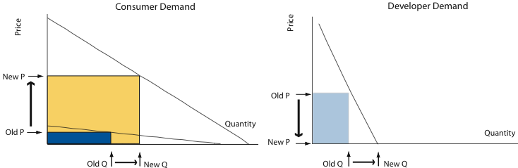 Diagram shows platform pricing high to consumer side and low to developer side. Authorship: Eisenmann, Parker, Van Alstyne